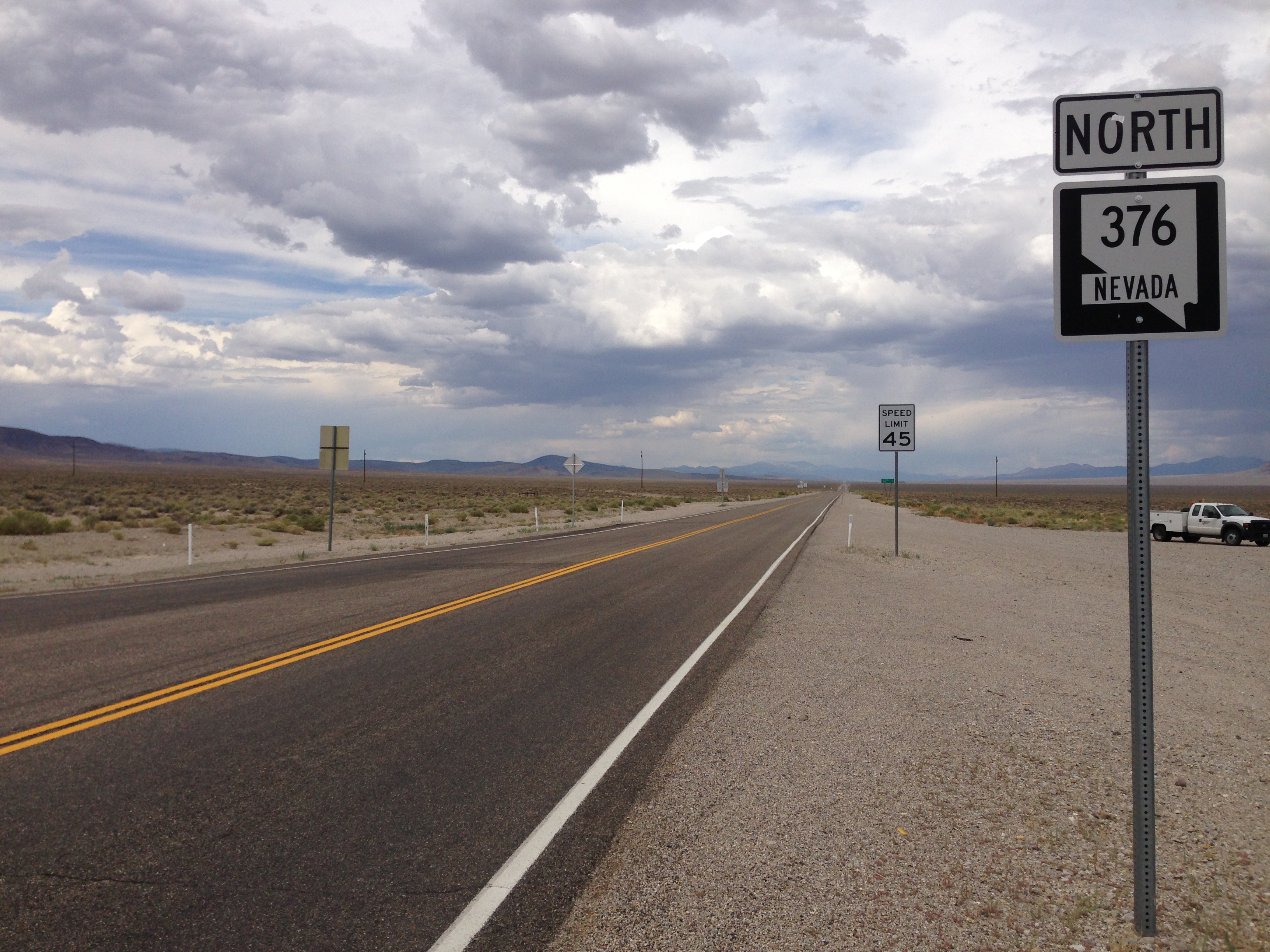 First reassurance sign along northbound Nevada State Route 376 (Tonopah-Austin Road) in Nye County, Nevada